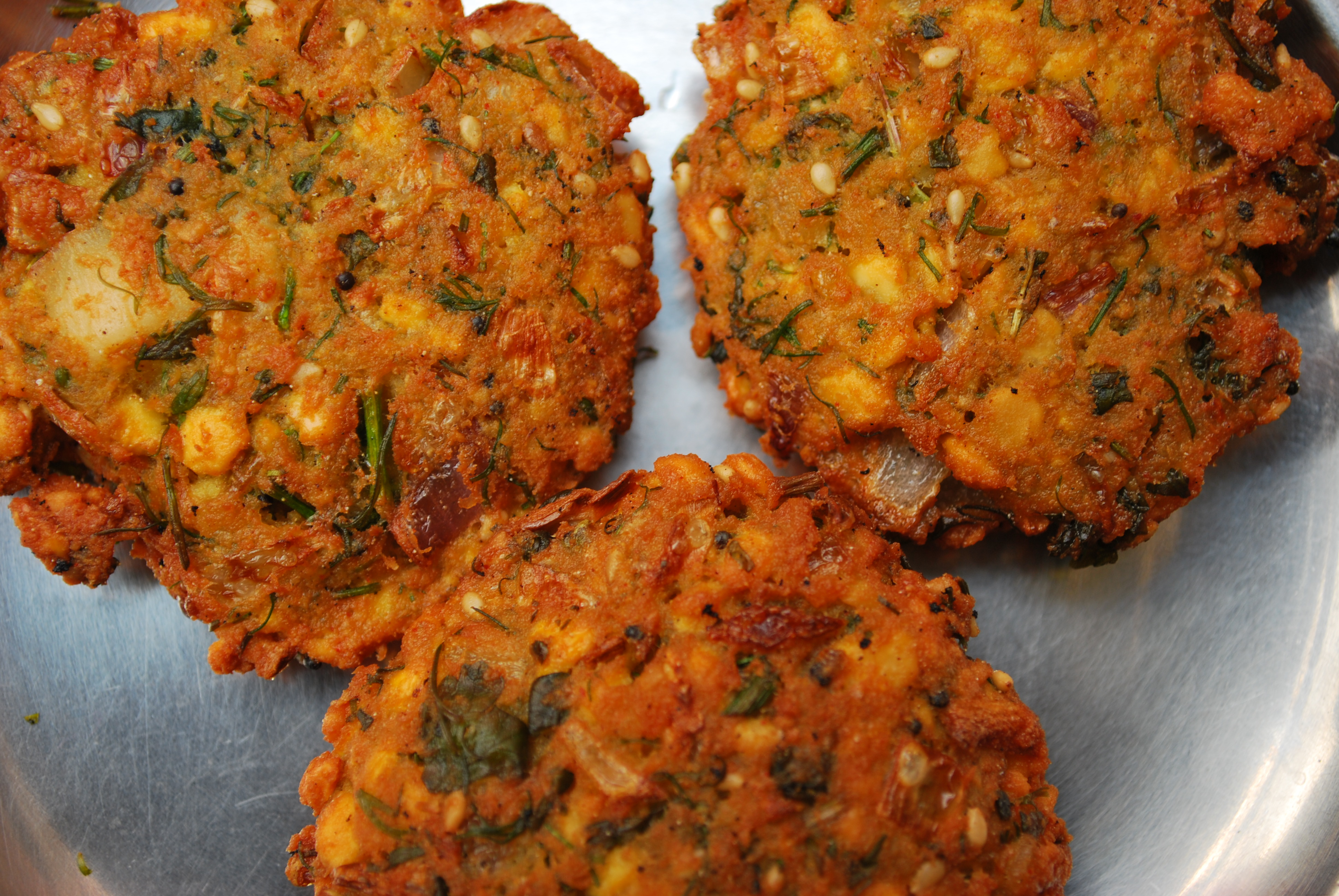 Man, after uploading the pics, I now have an urge to go eat vadas.